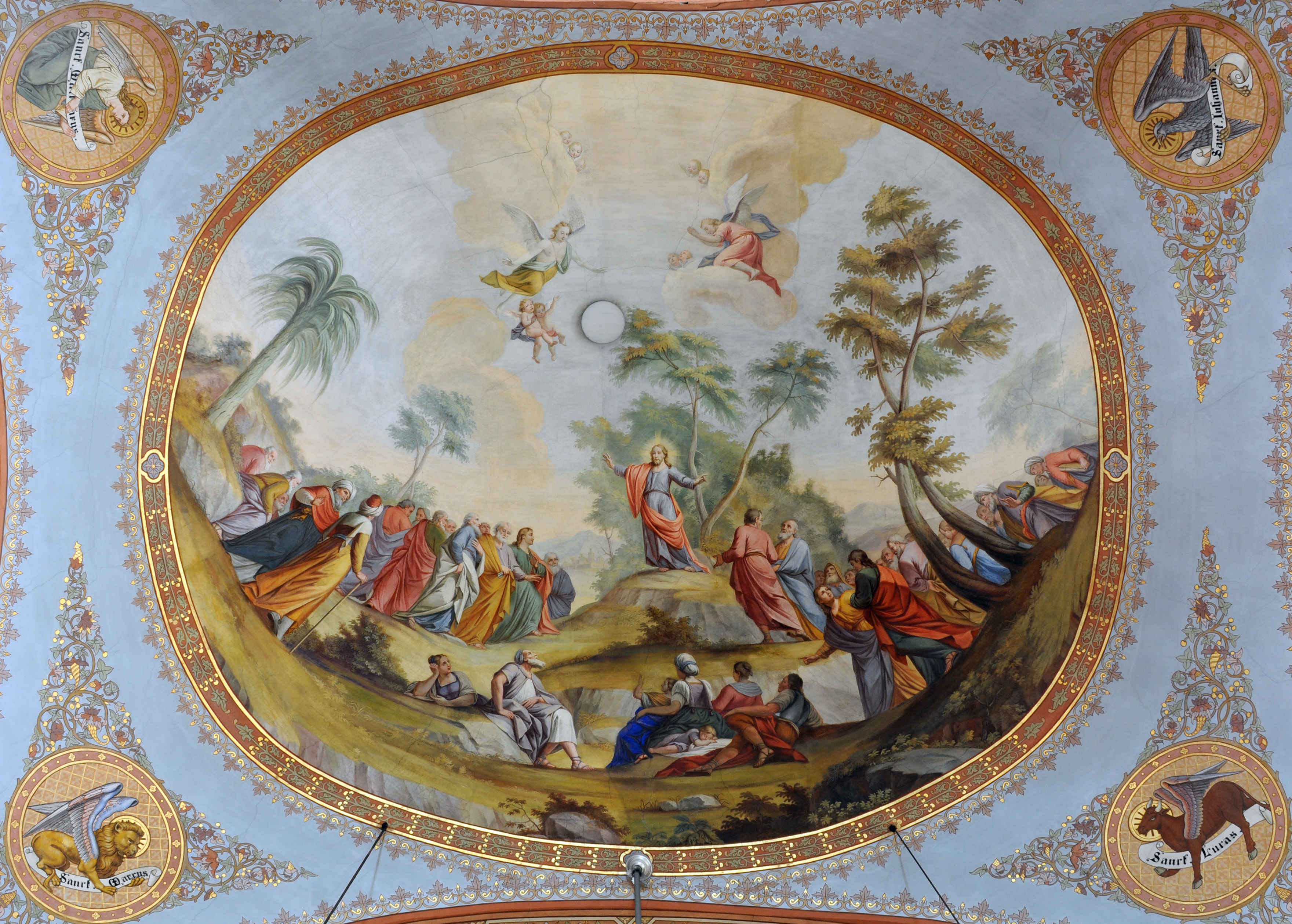 The Sermon of Jesus on the mount. Fresco by Franz Xaver Kirchebner in the Parish church of St. Ulrich in Gröden-Ortisei build in the late 18th century. The Beatitudes: Matthew 5:1-12. Verse 1: And seeing the multitudes, he went up into a mountain: and when he was set, his disciples came unto him: Verse 2: And he opened his mouth, and taught them, saying, Verse 3: Blessed are the poor in spirit: for theirs is the kingdom of heaven. Verse 4: Blessed are they that mourn: for they shall be comforted. Verse 5: Blessed are the meek: for they shall inherit the earth. Verse 6: Blessed are they which do hunger and thirst after righteousness: for they shall be filled. Verse 7: Blessed are the merciful: for they shall obtain mercy. Verse 8: Blessed are the pure in heart: for they shall see God. Verse 9: Blessed are the peacemakers: for they shall be called the children of God. Verse 10: Blessed are they which are persecuted for righteousness' sake: for theirs is the kingdom of heaven. Verse 11: Blessed are ye, when men shall revile you, and persecute you, and shall say all manner of evil against you falsely, for my sake. Verse 12: Rejoice, and be exceeding glad: for great is your reward in heaven: for so persecuted they the prophets which were before you.